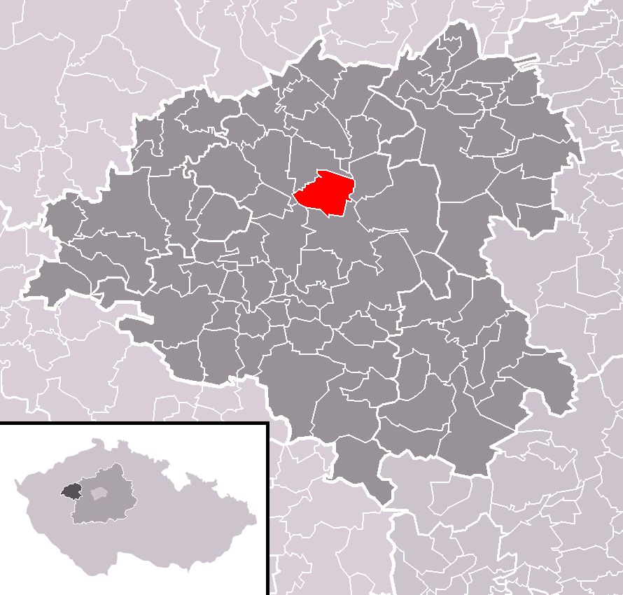 Location of Olešná municipality within Rakovník District and (identical) administrative area of Rakovník as a Municipality with Extended Competence.